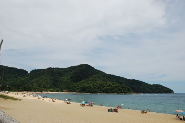 Boicucanga beach, Sao Sebastiao, Sao Paulo, Brazil